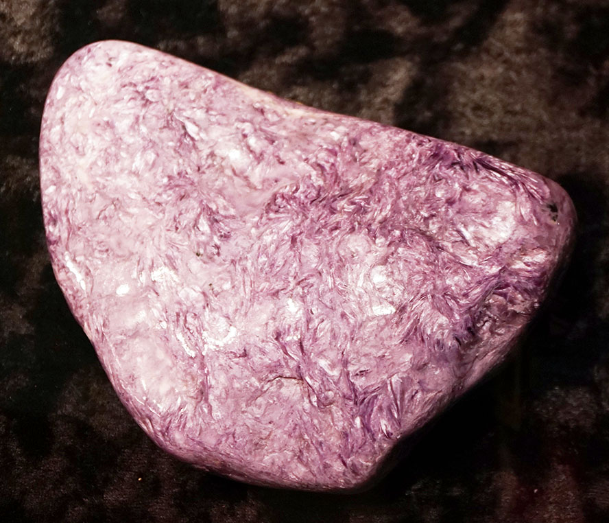 Charoite in Naturmuseum Augsburg.This photograph was taken with a Sony ILCE-5000